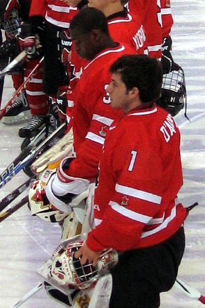 Canada_U18_Ice_Hockey_Team, Andrew D'Agostini and Malcolm Subban